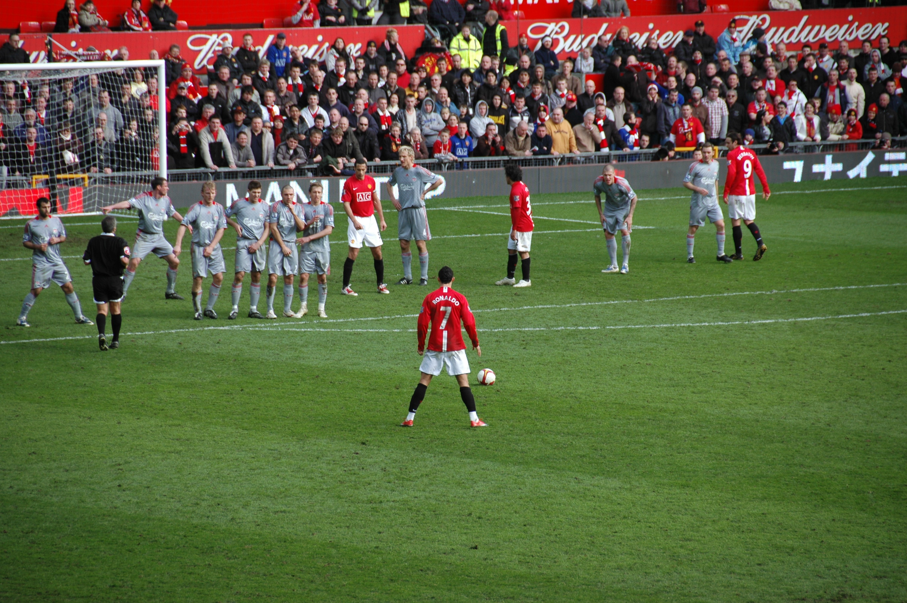 Cristiano Ronaldo slip when performing a freekick during the Premier League match between Manchester United FC and Liverpool FC in Old Trafford (Manchester) on 14 March 2009.